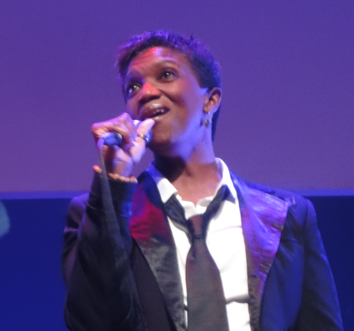 Claron McFaddon performing at the end of TEDxAmsterdam 2011